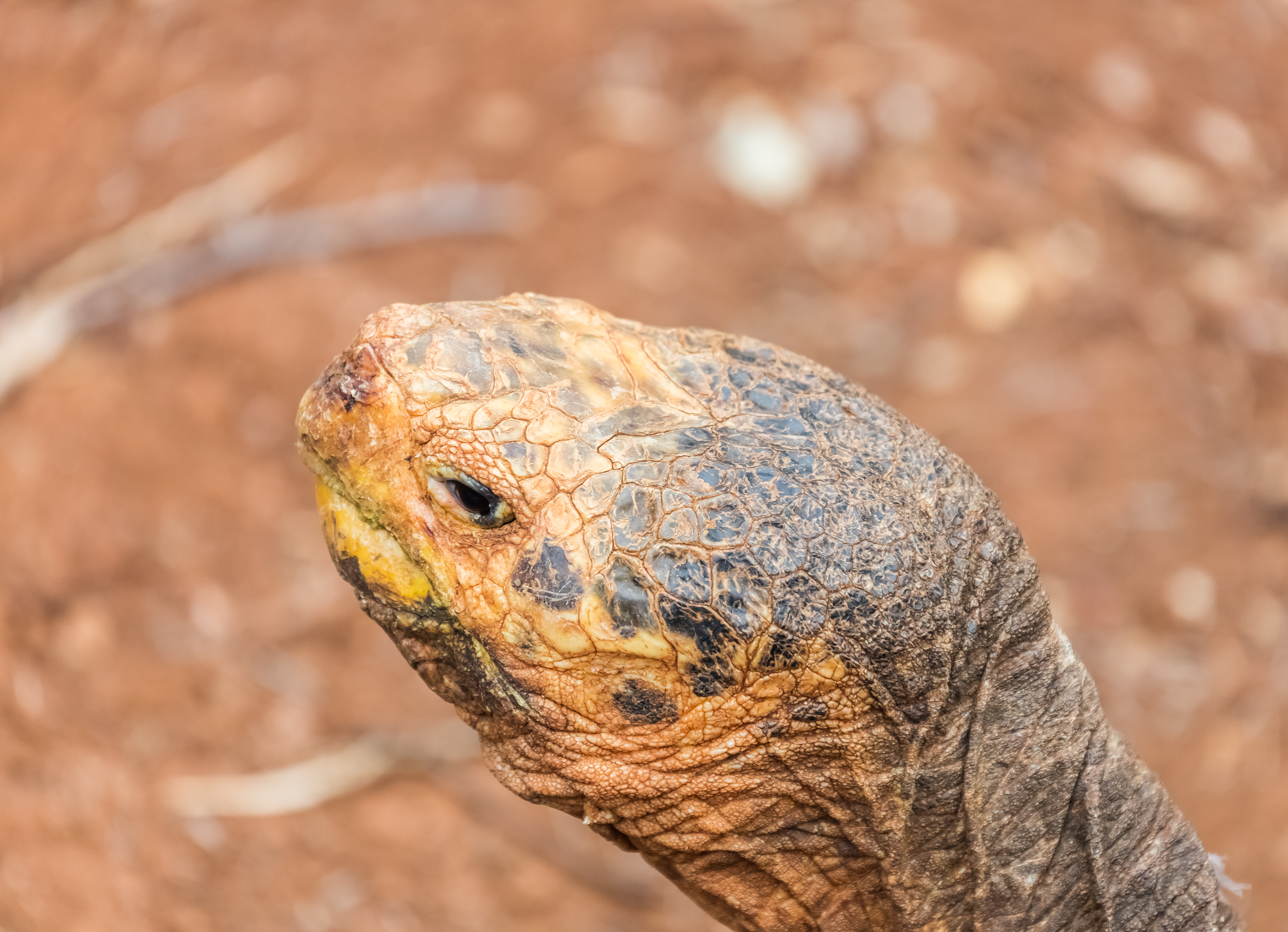 San Cristobal Island Galapagos tortoise (Chelonoidis chathamensis), Santa Cruz Island, Galapagos Islands, Ecuador